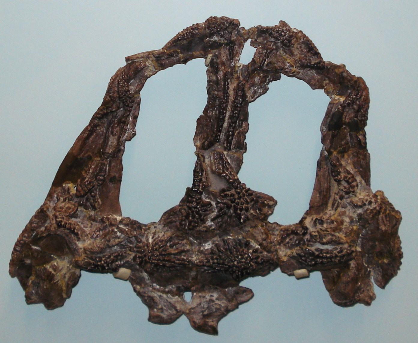 fossil of plagiosuchus